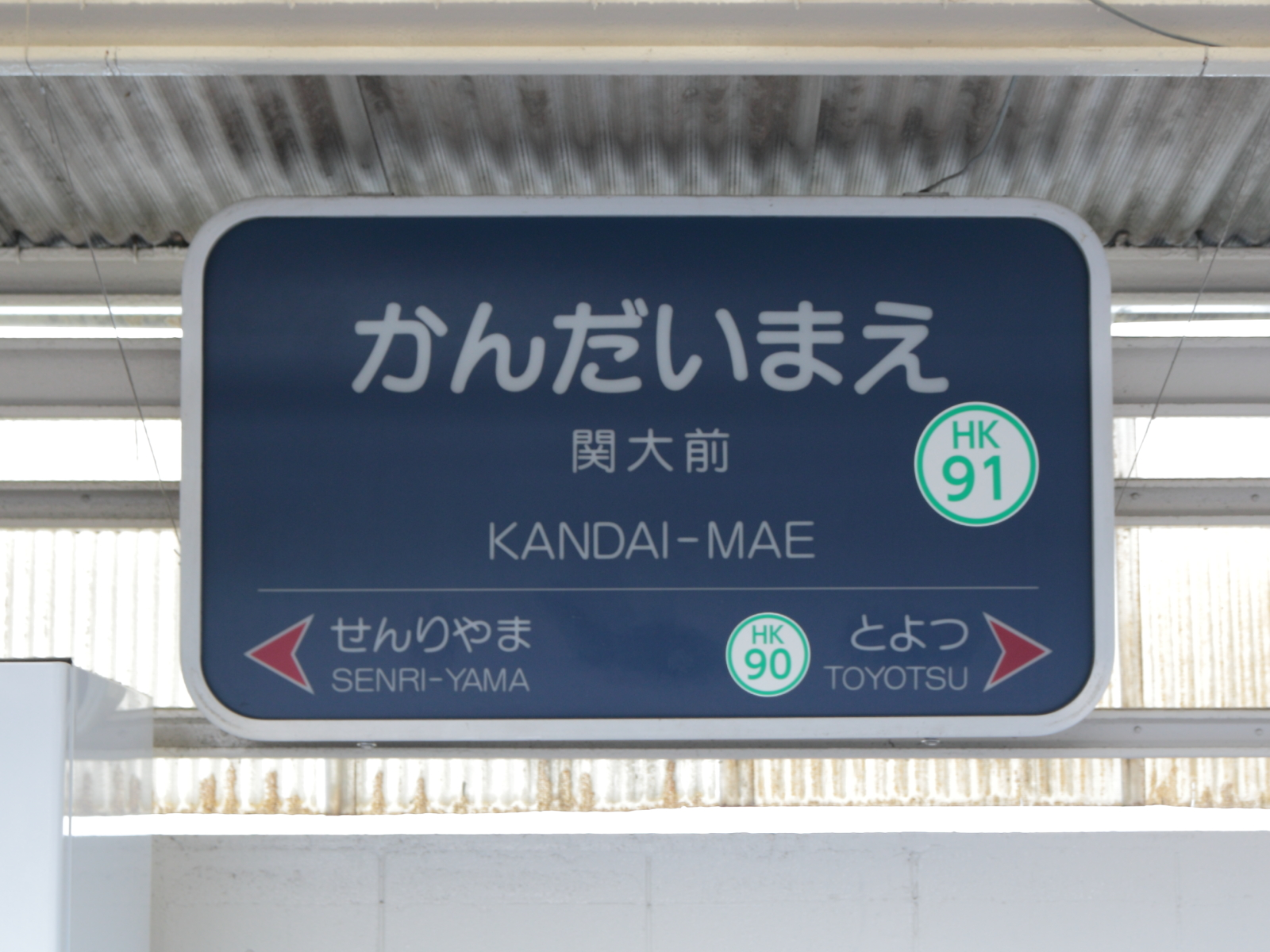 Running in board from Kandaimae Station.